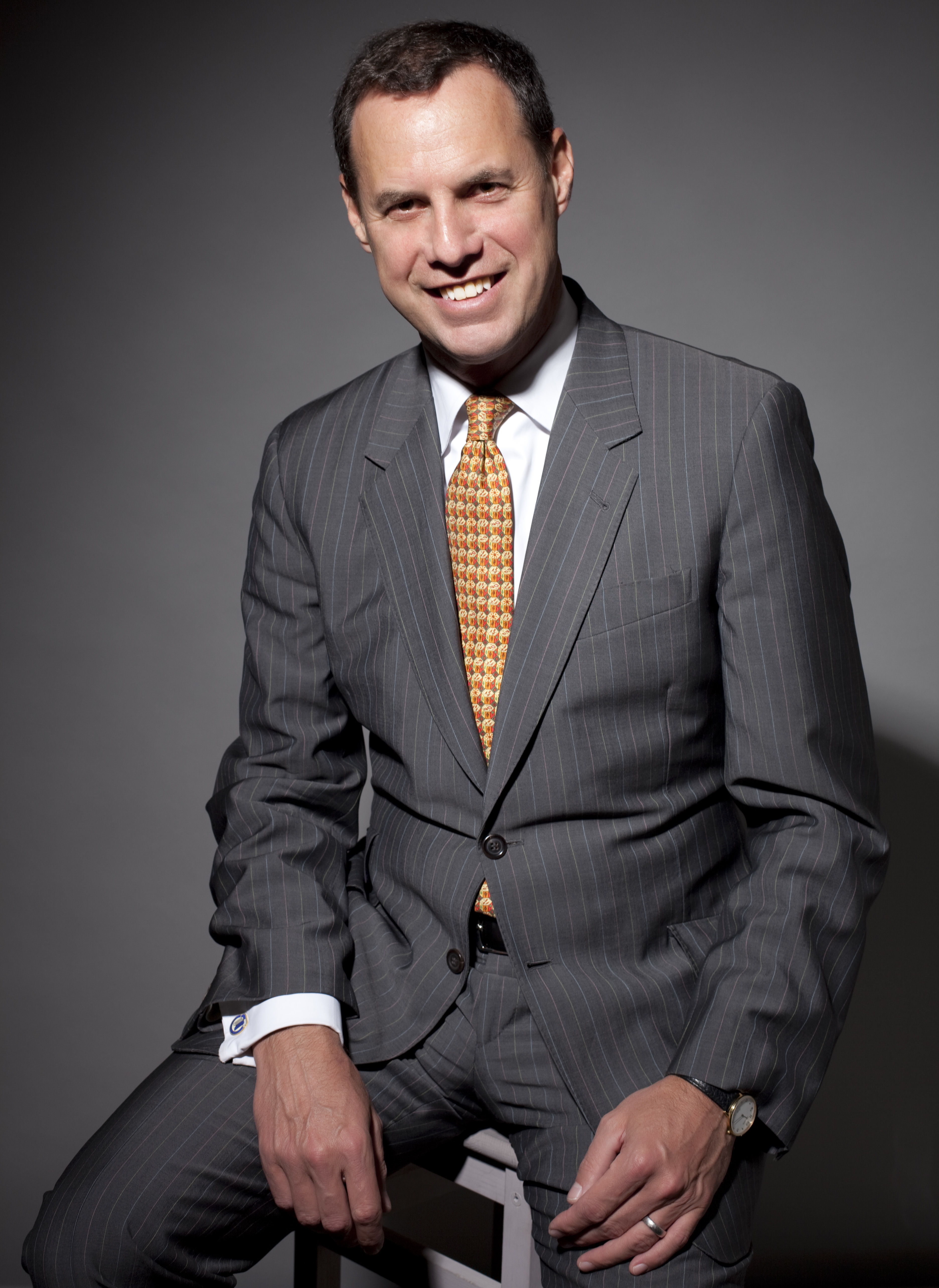 Kevin Allen is a Wall Street Journal best-selling author of The Hidden Agenda